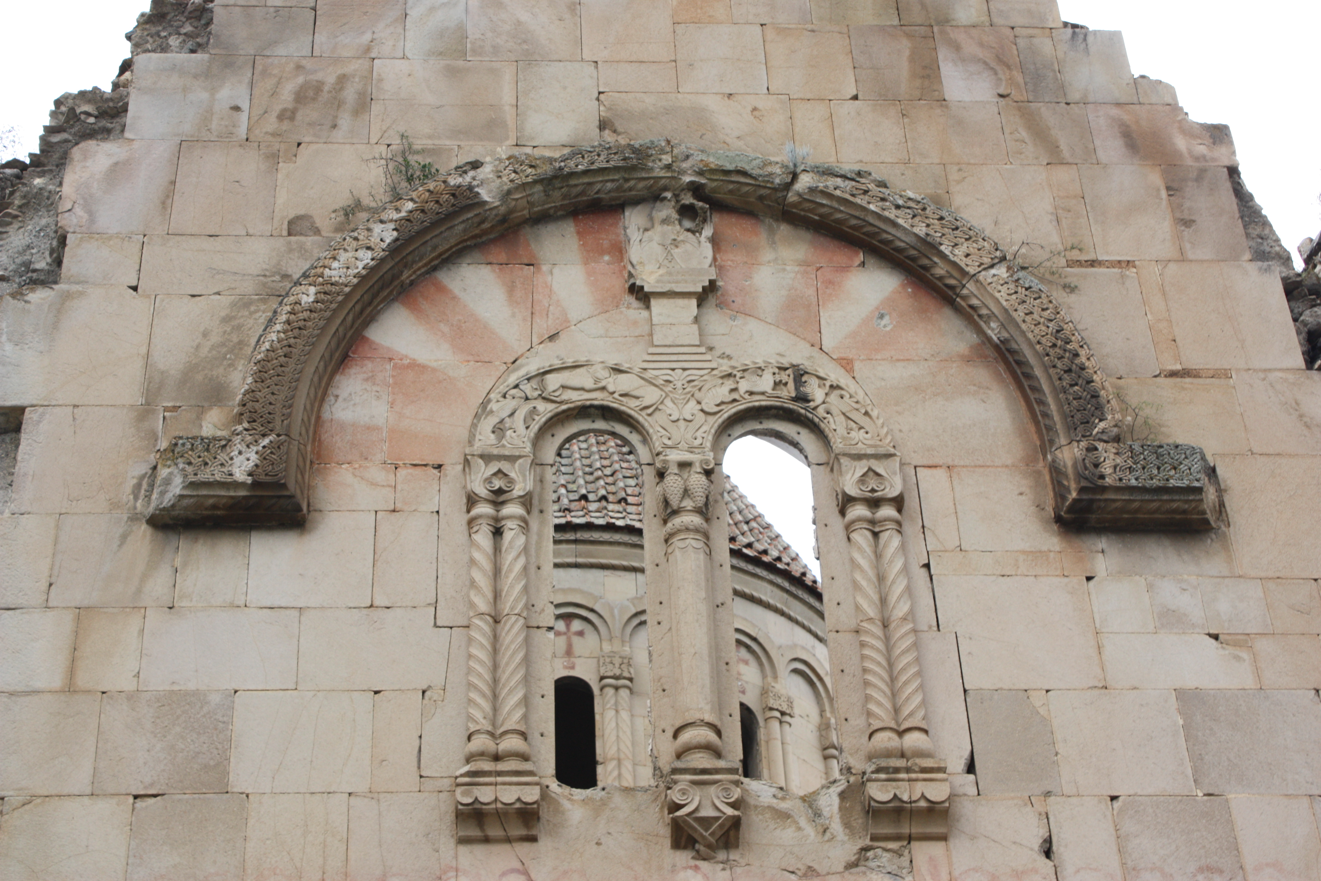 Georgian cathedral Oshki in historical Georgian region Tao-Klarjeti